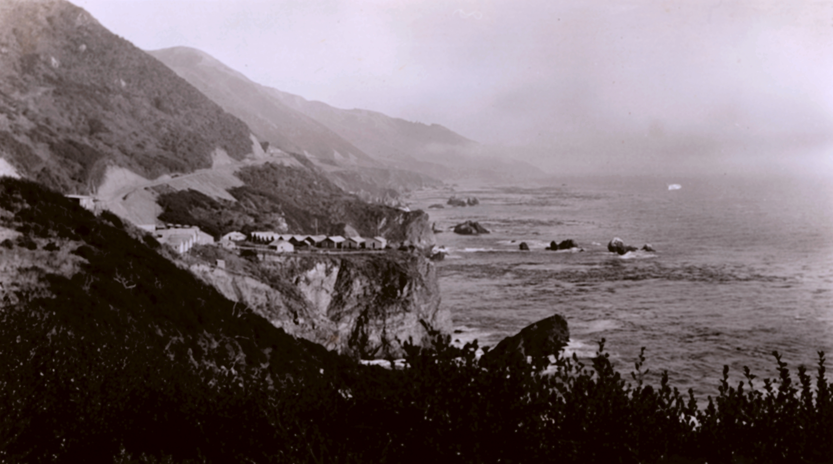 Convicts from Folsom Prison were used to build Highway 1 along the California coast between Pfeiffer, Big Sur, and San Simeon to the south. The camps were fenced in and under guard.